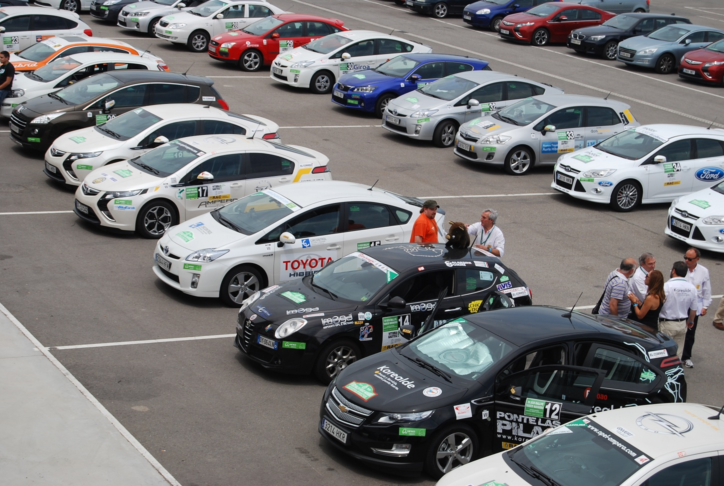 IV Eco Rallye Vasco Navarro cars in the paddock of circuit of Navarra.